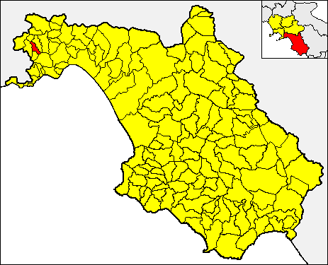 Locator map of the municipality of Sant'Egidio del Monte Albino (red) within the Province of Salerno